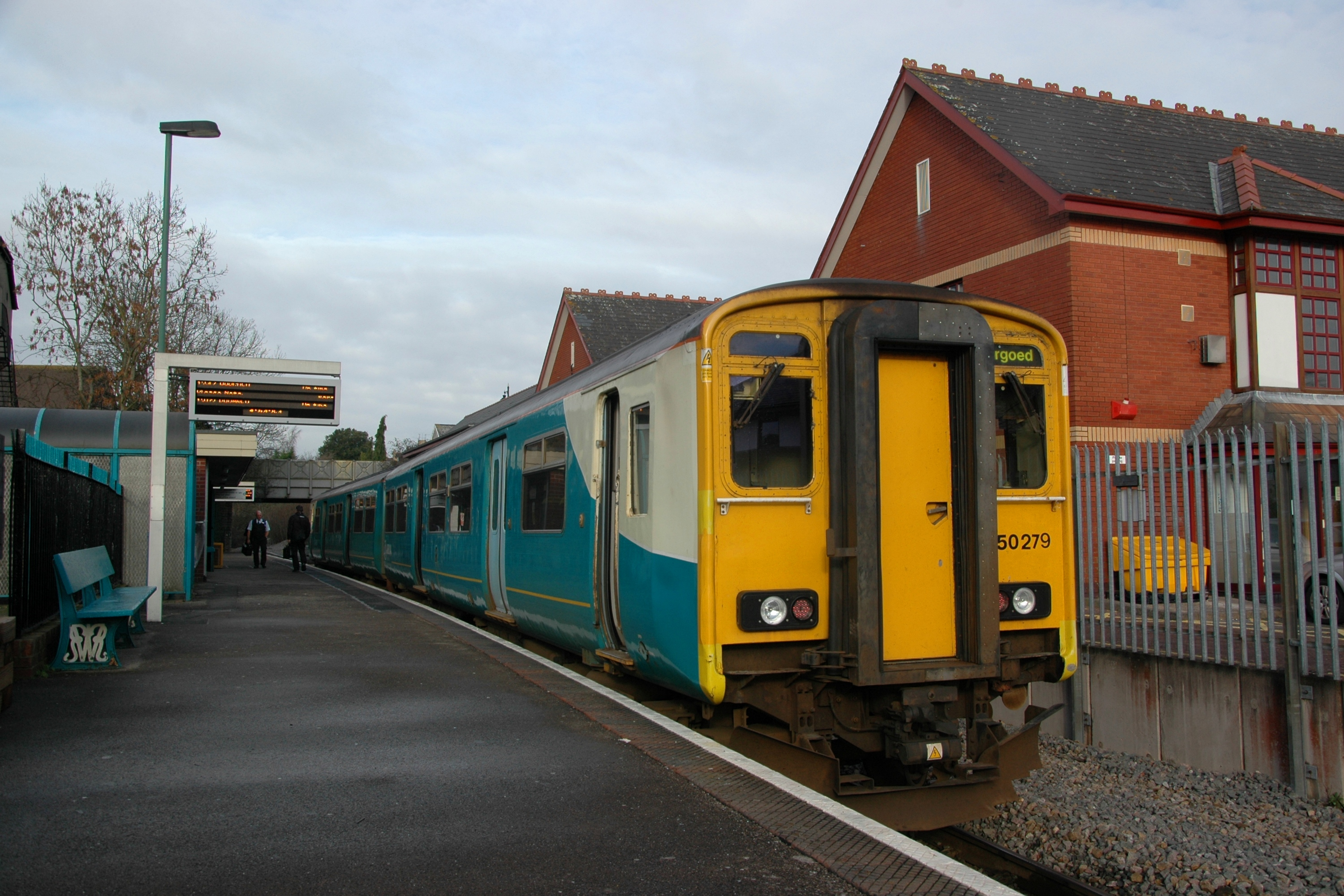 Class 150 train in Arriva Trains Wales livery at Penarth railway station, Vale of Glamorgan, Wales.